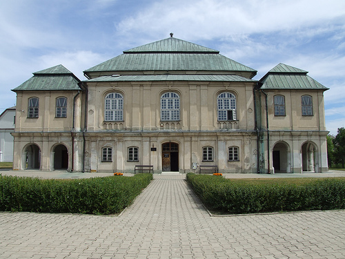 Great Synagogue in Włodawa